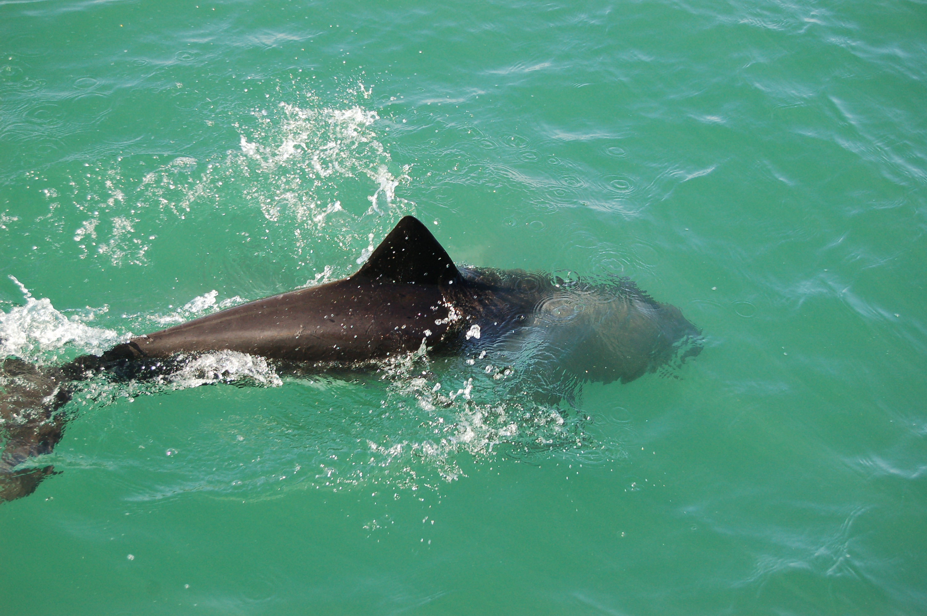 Haviside's dolphin (Cephalorhynchus heavisidii) off Lüderitz, Namibia